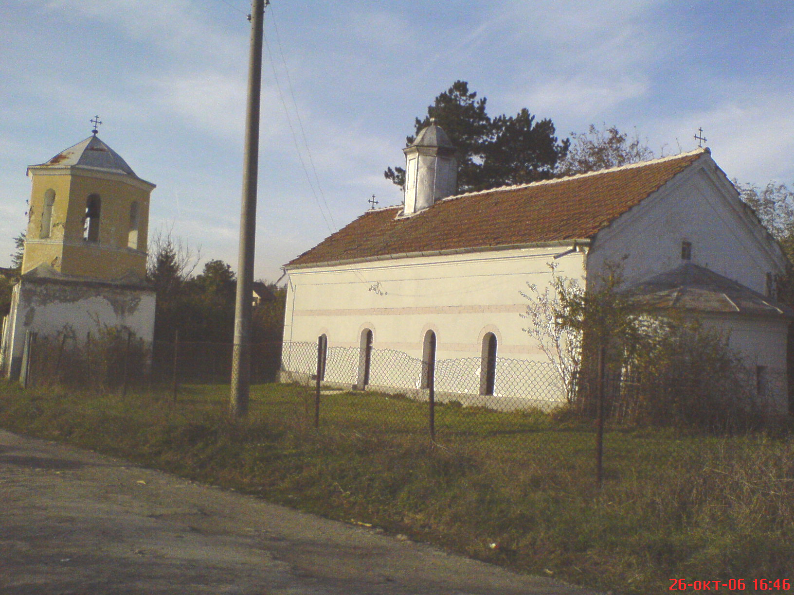 The church in village Studeno buche, Bulgaria